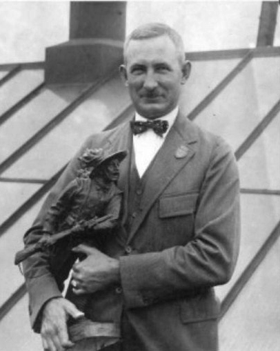 Captain Carl T. Osburn, USN 5 November 1884 – 28 December 1966